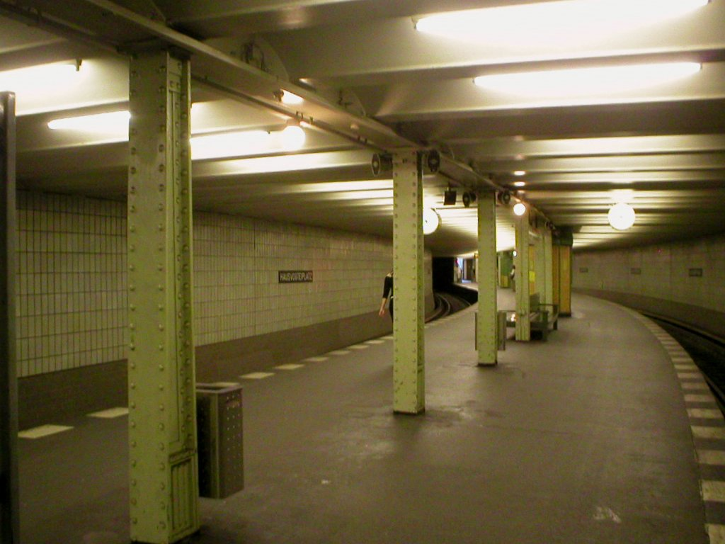 Platform of the Berlin underground station Hausvogteiplatz (line U2)